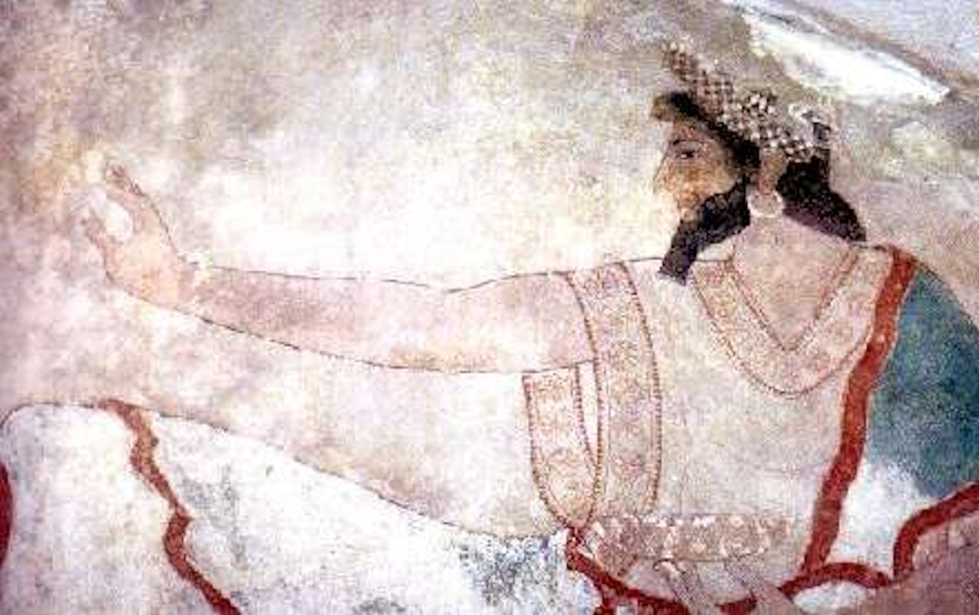 Karaburun Elmali 470 BCE